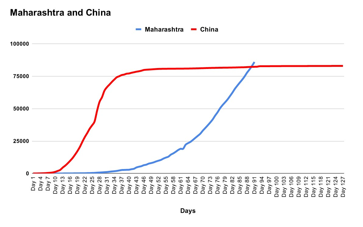 Maharashtra COVID-19 cases crosses China's 50 Days earlier. It just took 90 Days for Maharashtra to crosses the no. of COVID cases in China.